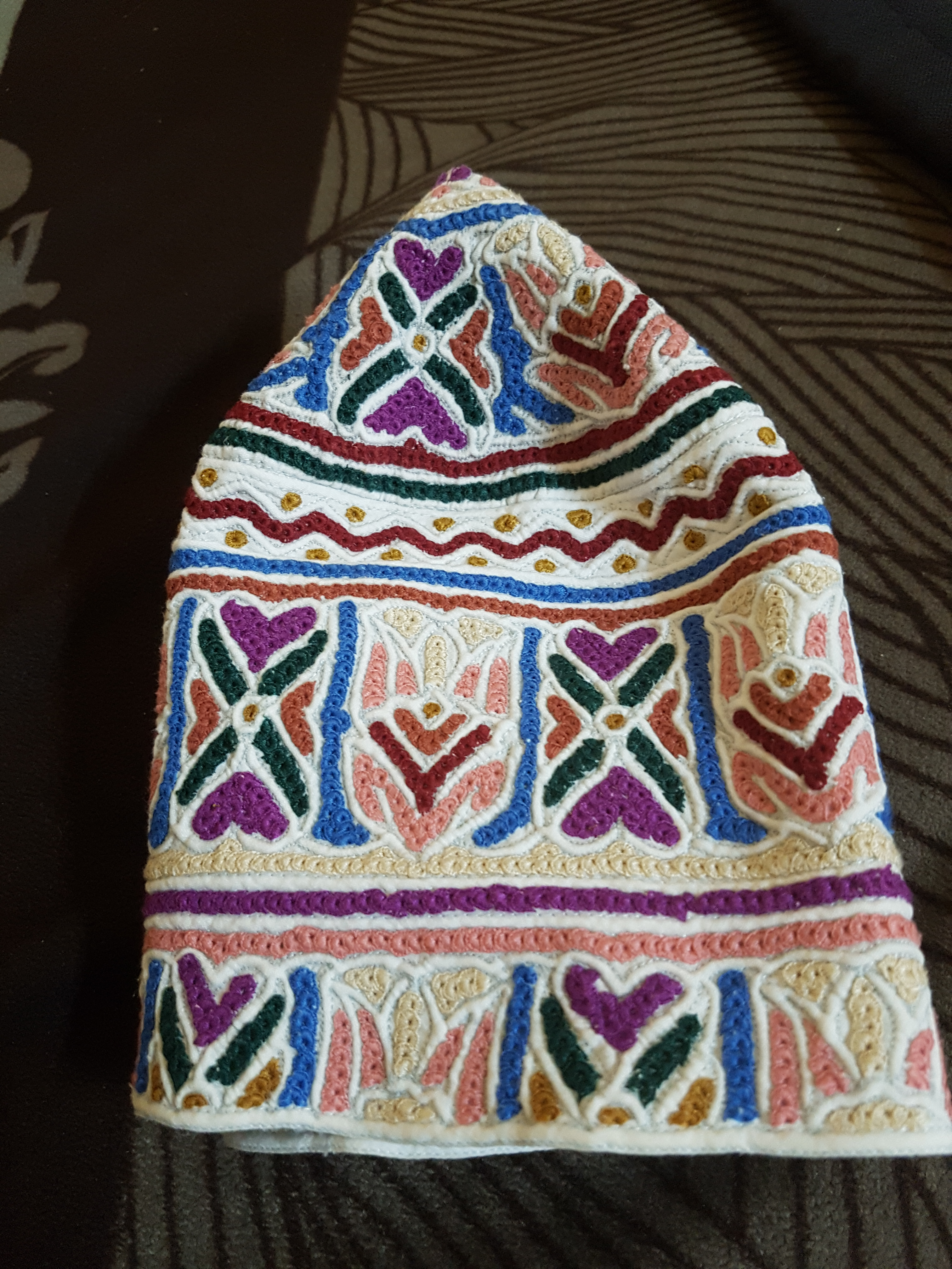 كمة مطرزة بالوان جميلة